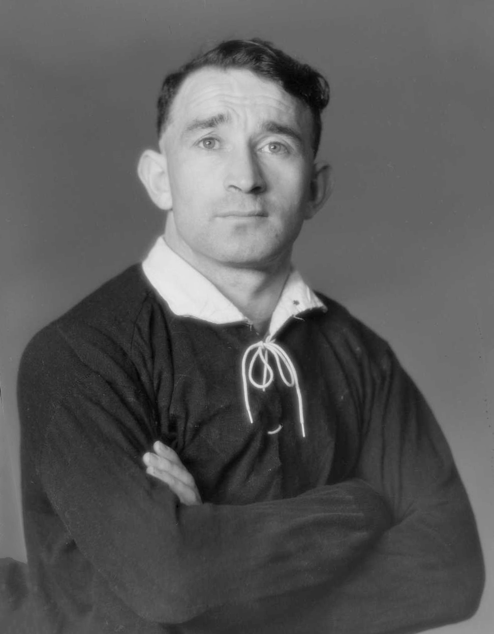 Photograph of Vince Bevan in All Black Uniform, taken by Crown Studio Ltd of Wellington.